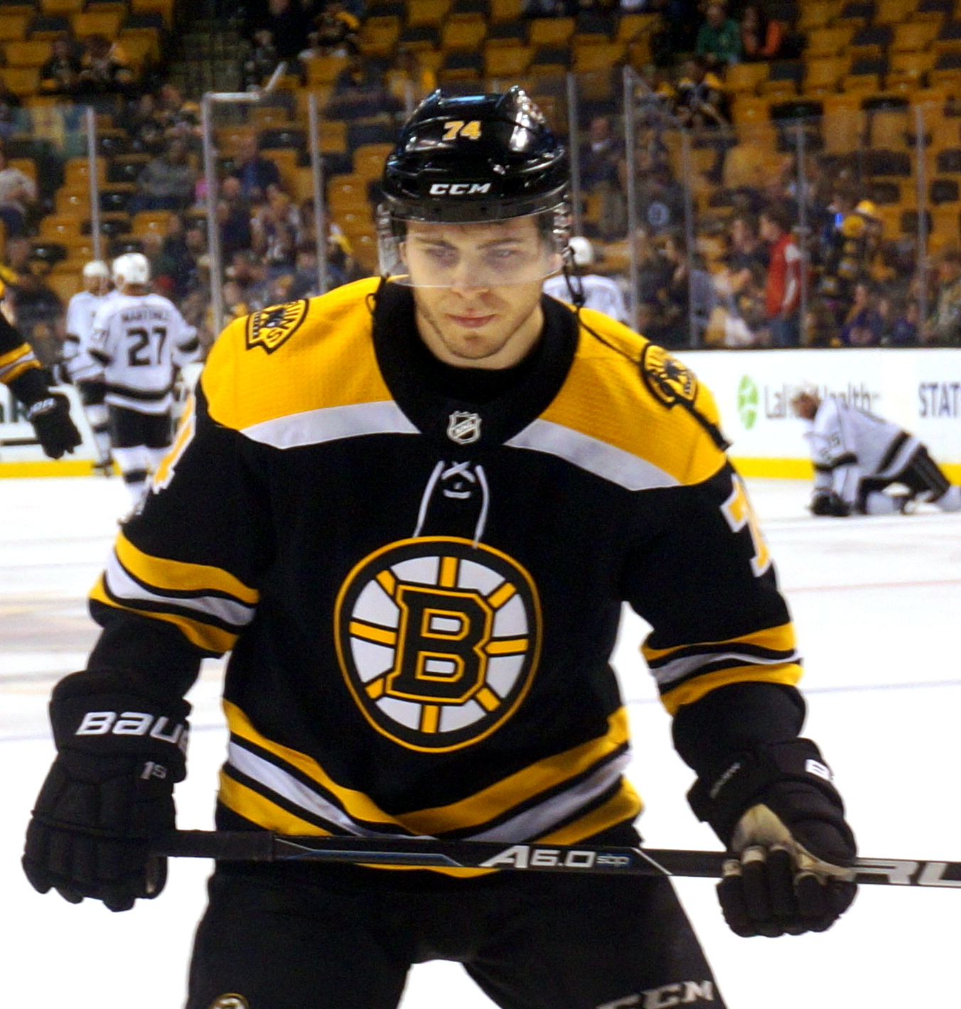 Jake DeBrusk at Boston Bruins warm-ups October 2017